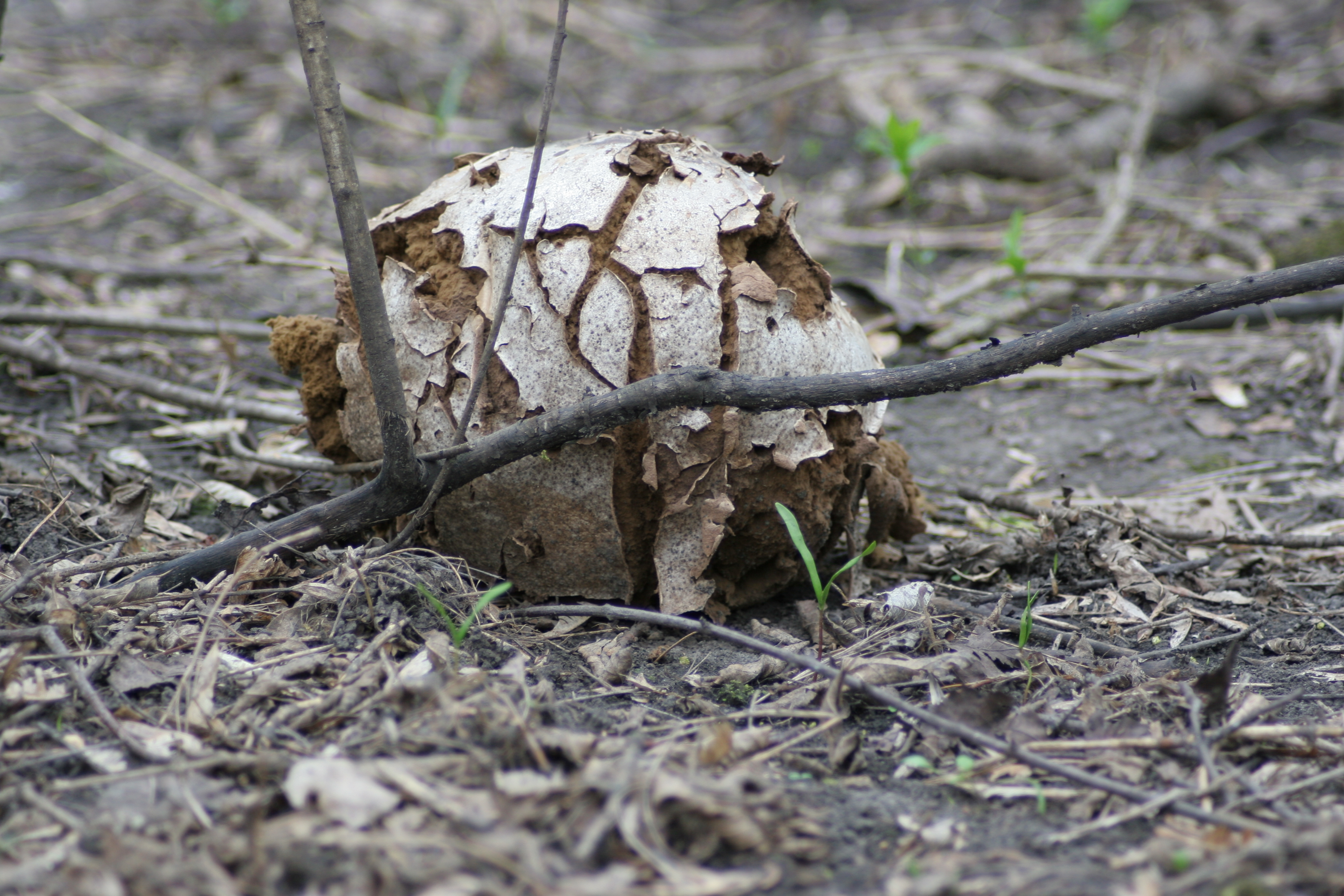 In an isolated section of some woods in a preserve near my house I came upon three giant puffballs. They were each slightly larger than a honeydew melon. This one was best preserved after the winter.